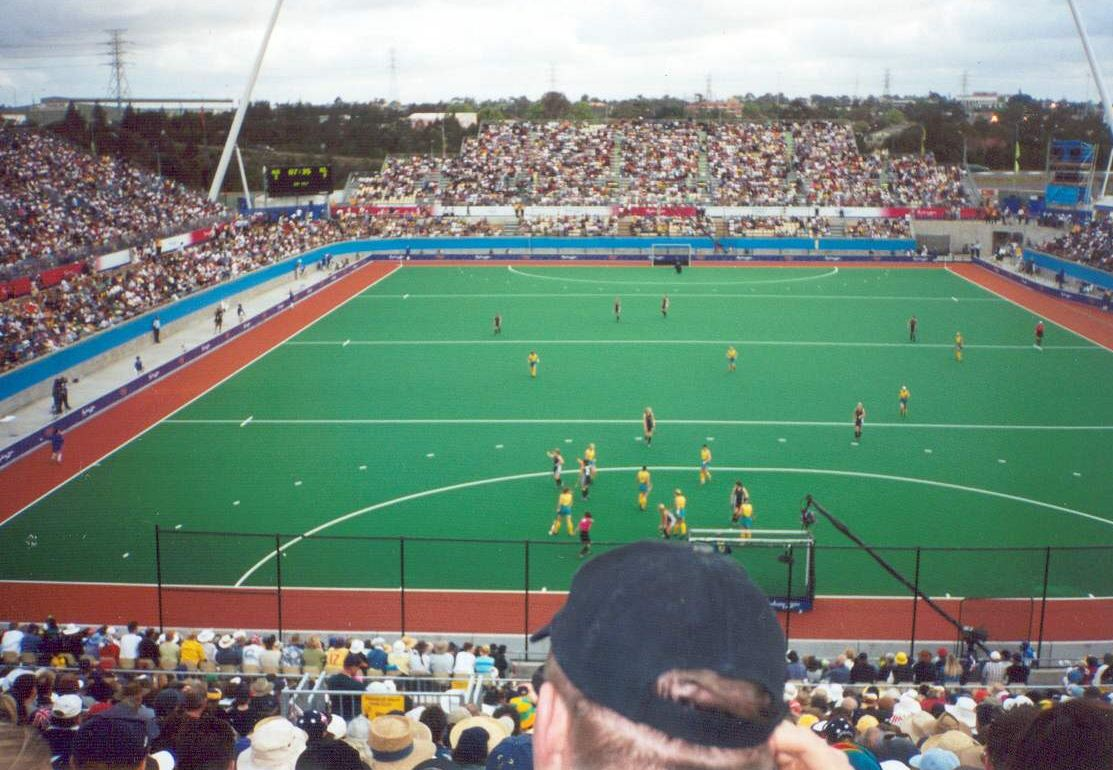 Hockey match at Sydney 2000 olympics between Australia and the Netherlands. I took the photo.